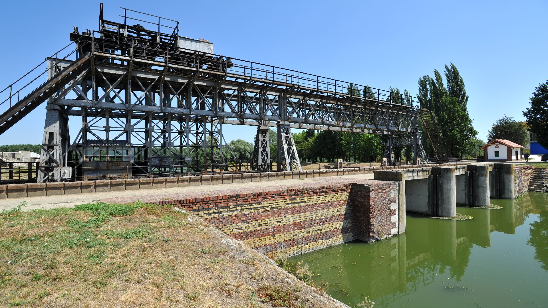 "Prevodnica Šlajz" in Bečej- upstream